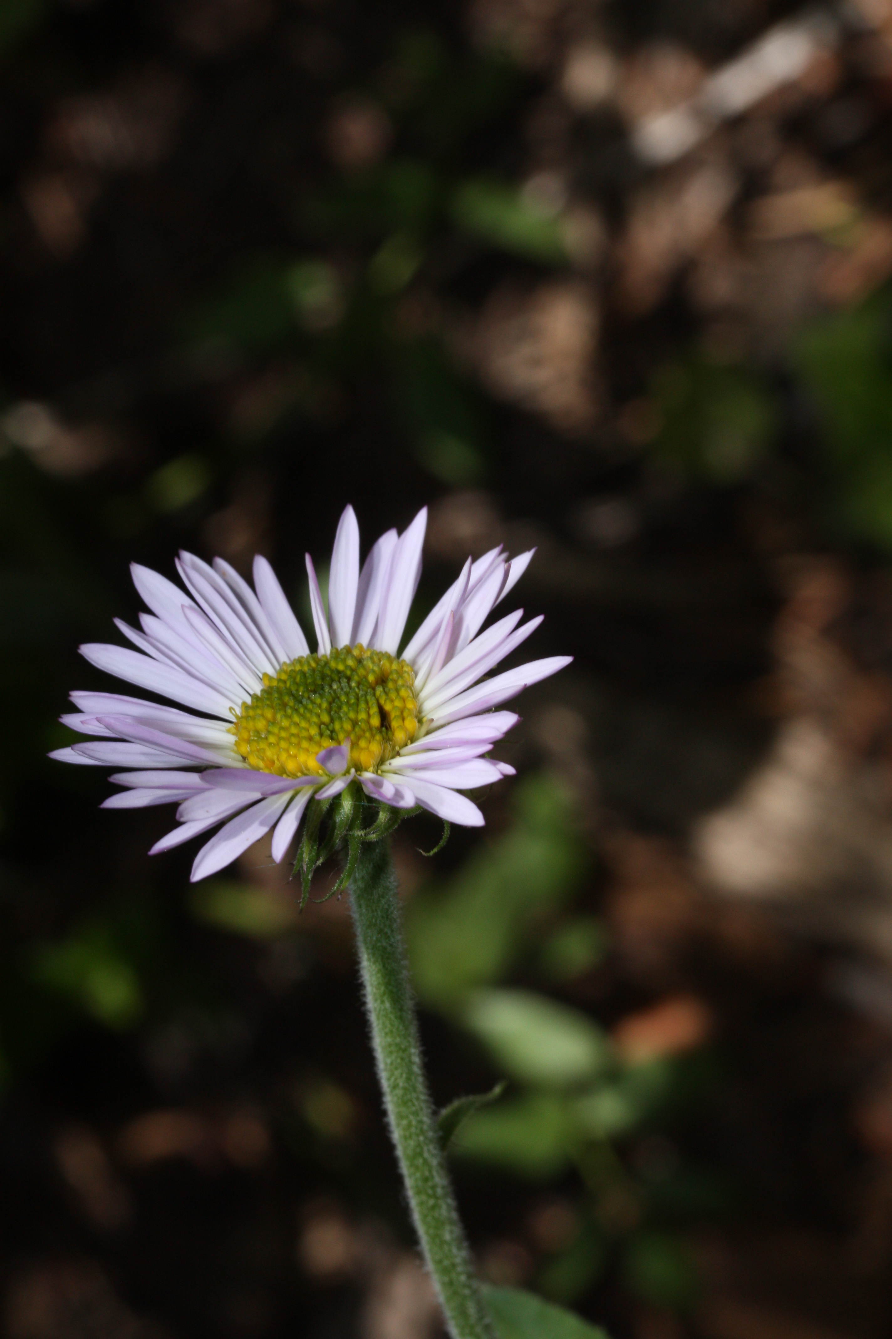 Alpine Aster